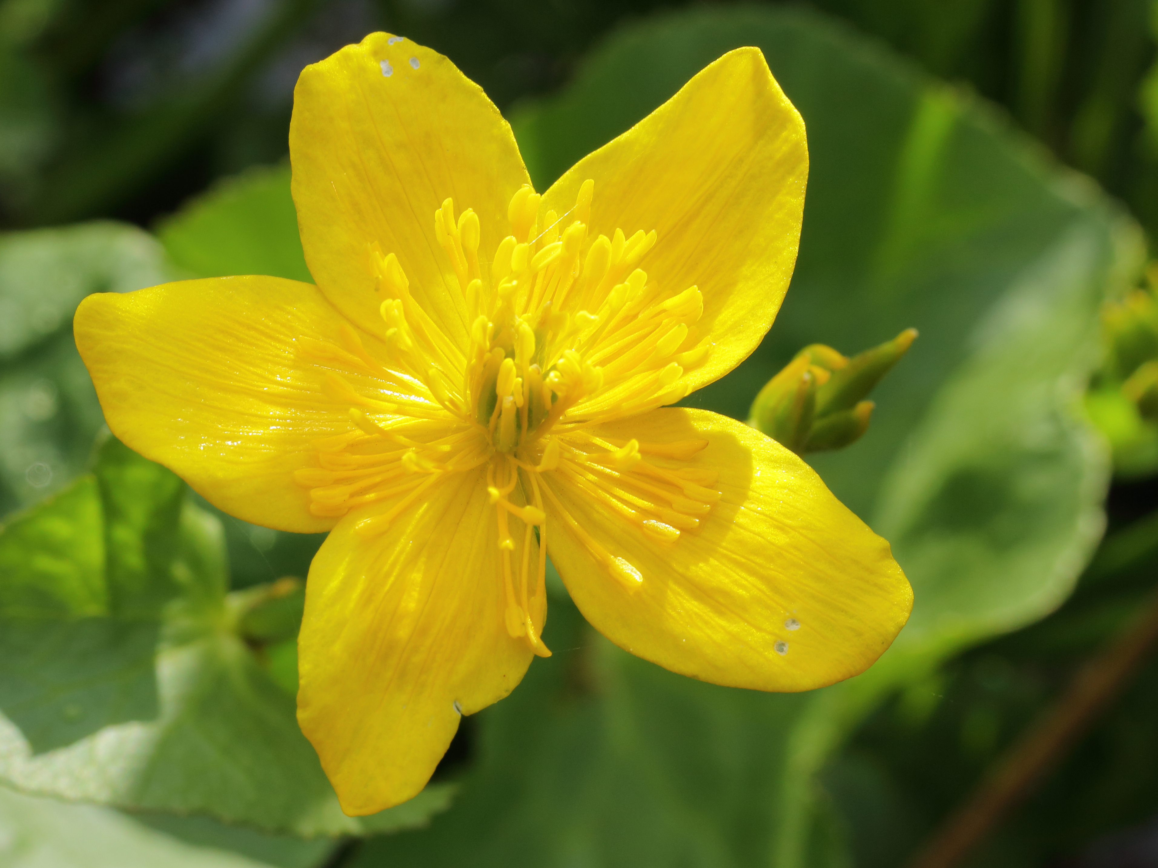 Caltha palustris subsp. palustris. Spring-flowering plant bank.